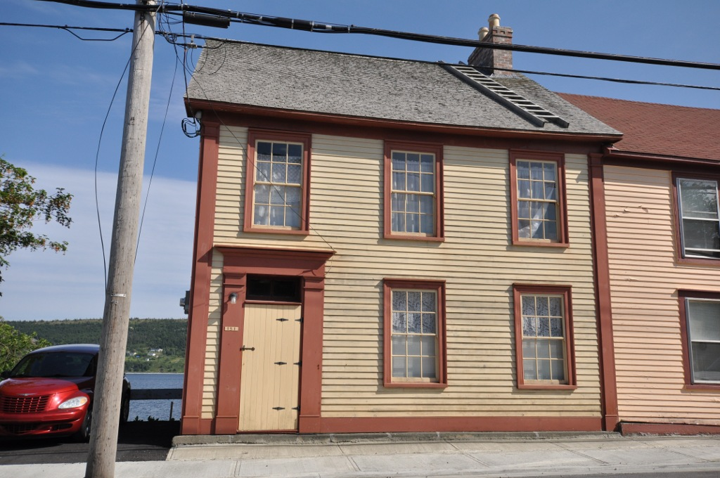 Payne House, Harbour Grace, Newfoundland.